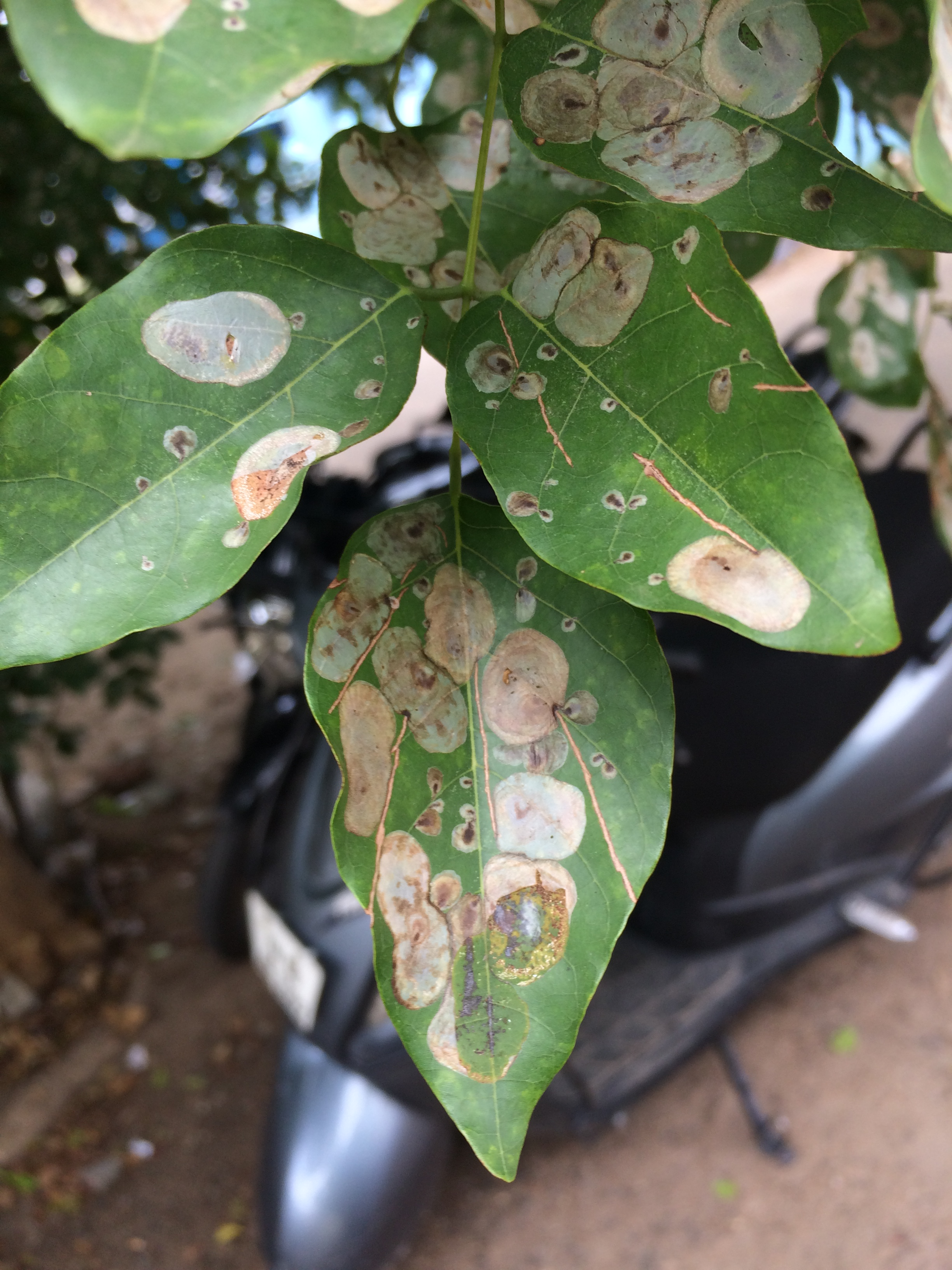 Disease affected Pongamia pinnate leaves